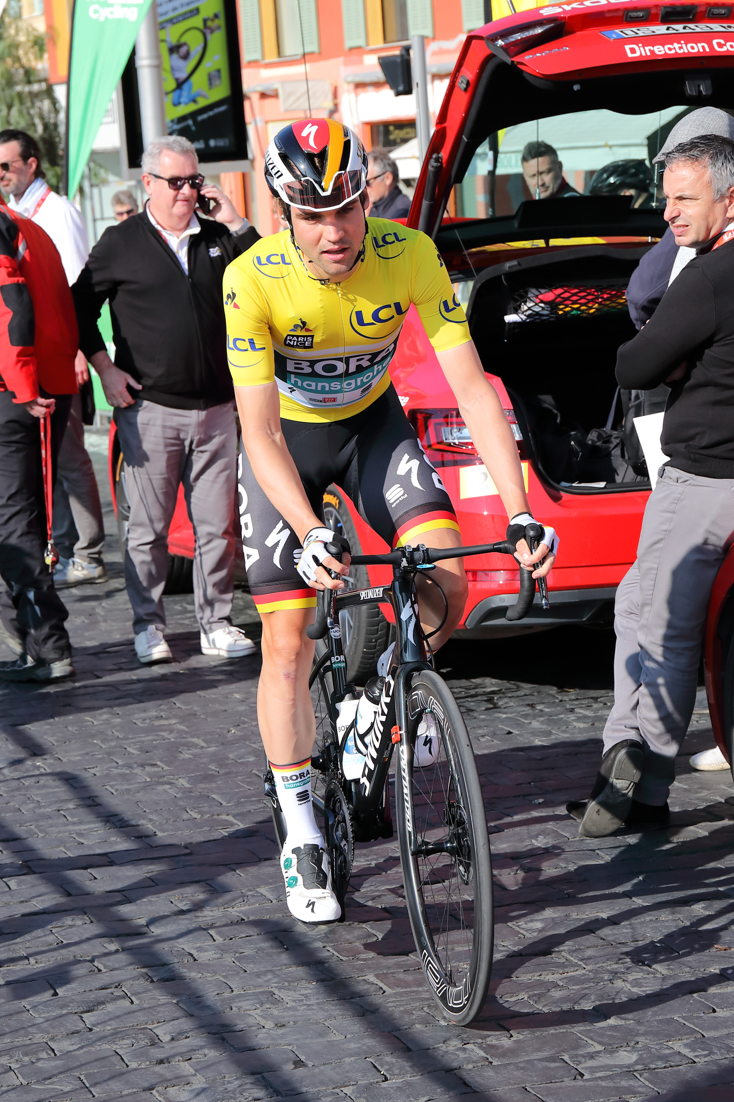 Maximilian Schachmann in Nice at the start of the 7th stage of the 2020 Paris-Nice